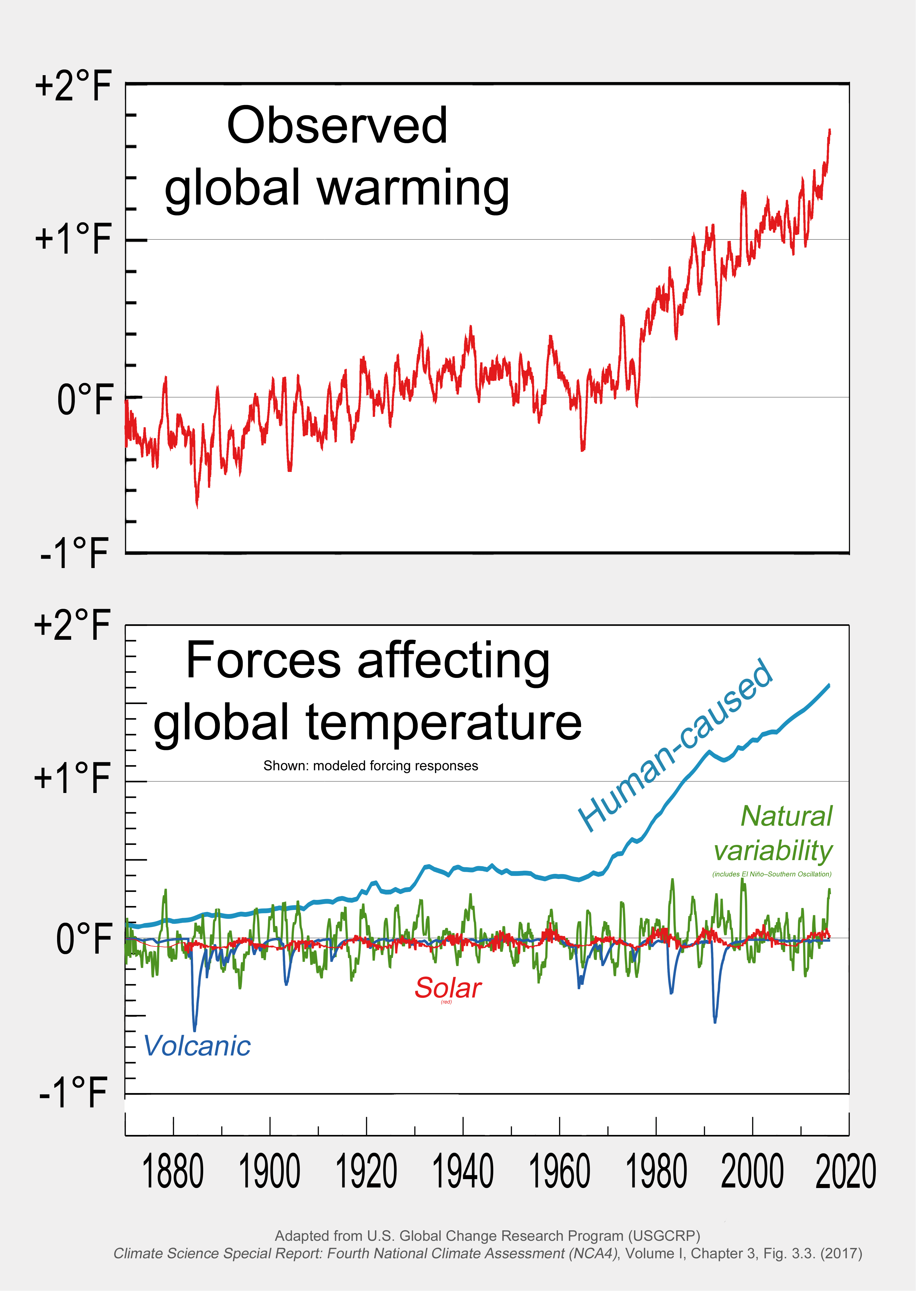 Graph showing global warming attribution - based on NCA4 (2017) Fig 3.3. Modeled forcing responses of forces affecting global temperature (1870 - ~2017). Uploader took separate charts, changed them in Photoshop to a common vertical (temperature anomaly) scale, and merged them into this composite graphic. Source of charts from which the above composite chart was formed: Climate Science Special Report: Fourth National Climate Assessment, Volume I - Chapter 3: Detection and Attribution of Climate Change. . U.S. Global Change Research Program (USGCRP) (2017). Archived from the original on September 23, 2019. Adapted directly from Fig. 3.3. Archive of the PNG image itself. Fig. 3.3 credits this Atmospheric Chemistry and Physics article which states: "Atmos. Chem. Phys., 13, 3997-4031, 2013, © Author(s) 2013. This work is distributed under the Creative Commons Attribution 3.0 License."